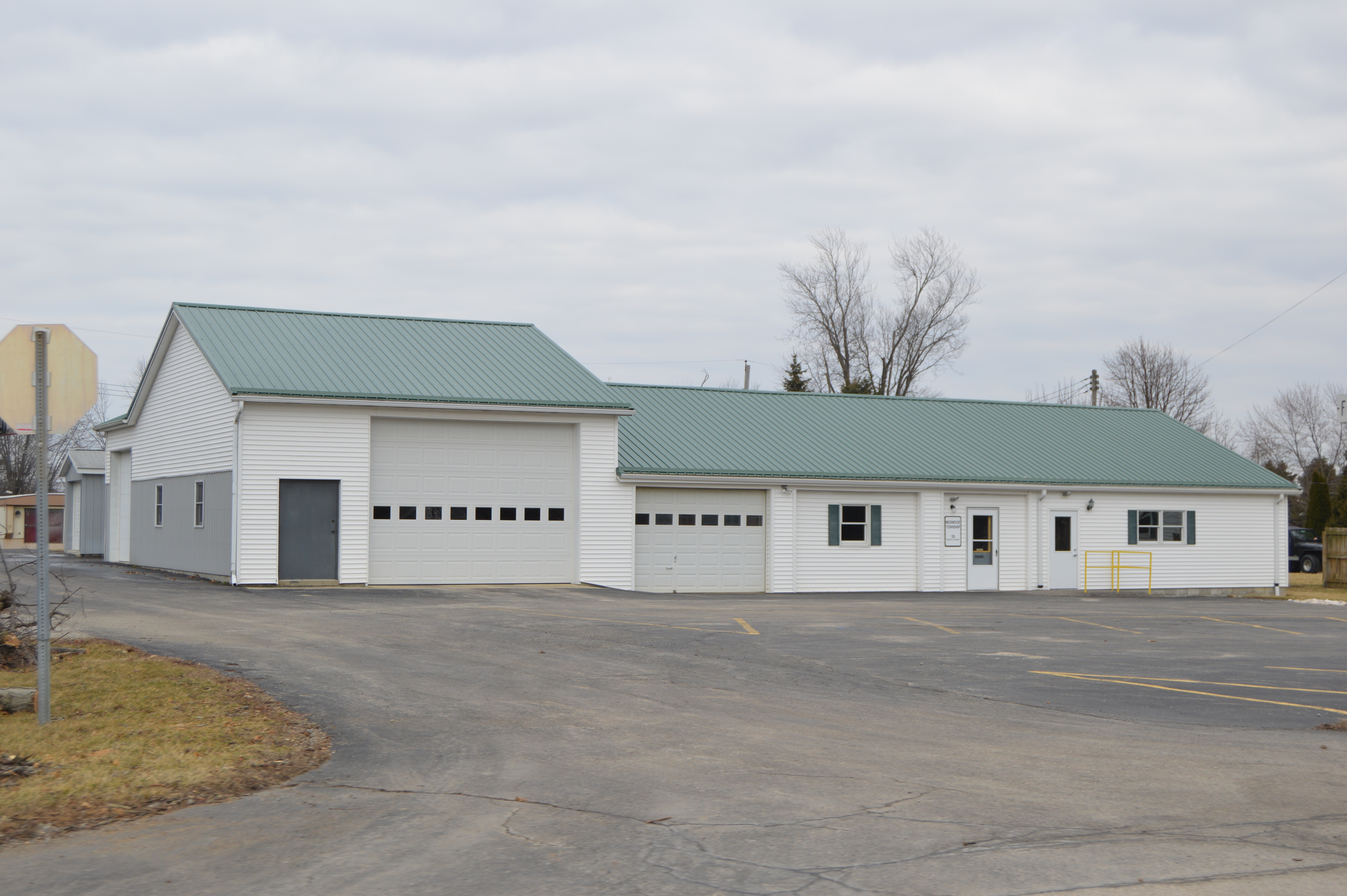 Front of the Monroe Township hall, located along State Route 38 at 15 Fourth Street at Plumwood in Monroe Township, Madison County, Ohio, United States.